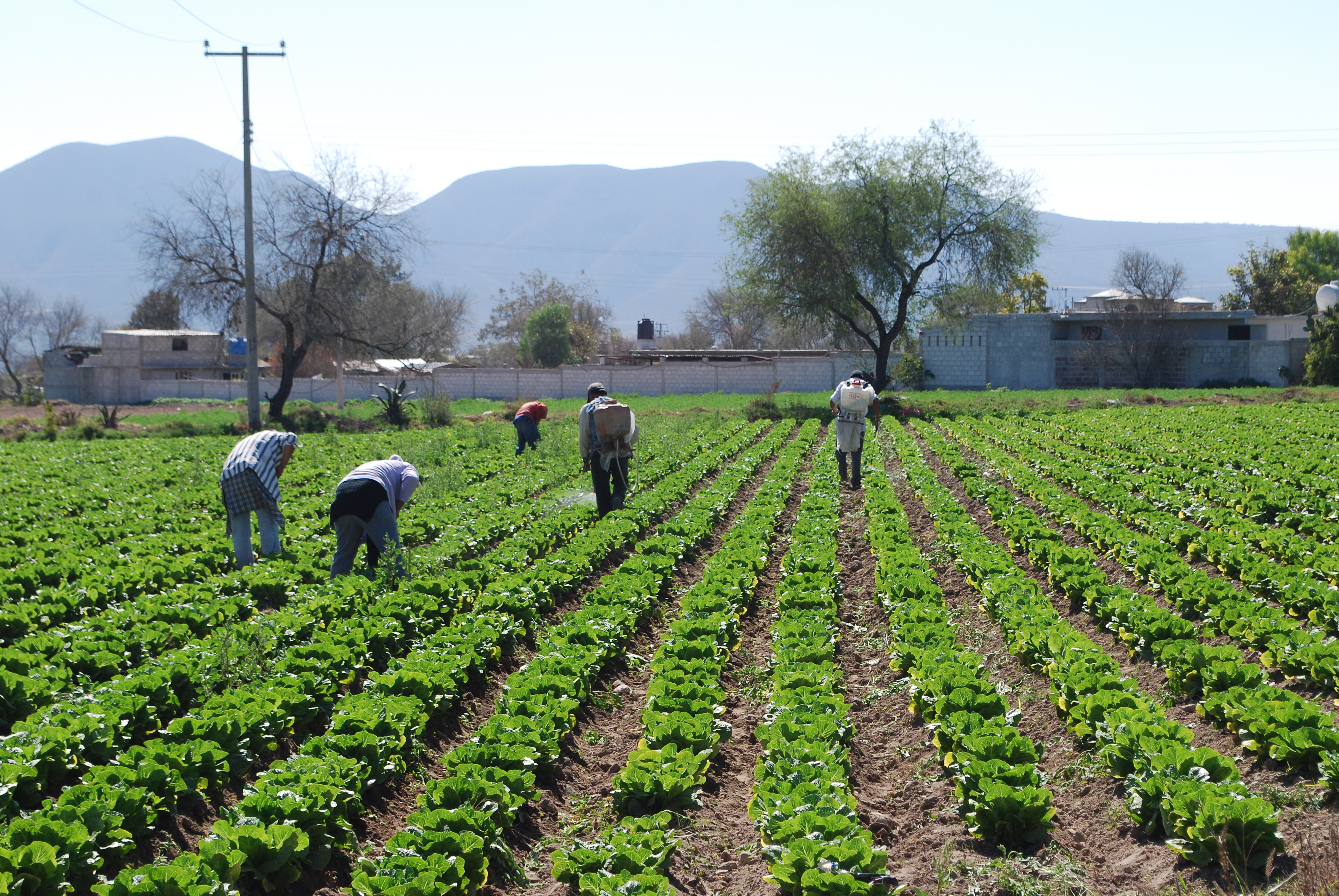 Working a cabbage field in El Nith, Ixmiquilpan, Hidalgo, Mexico